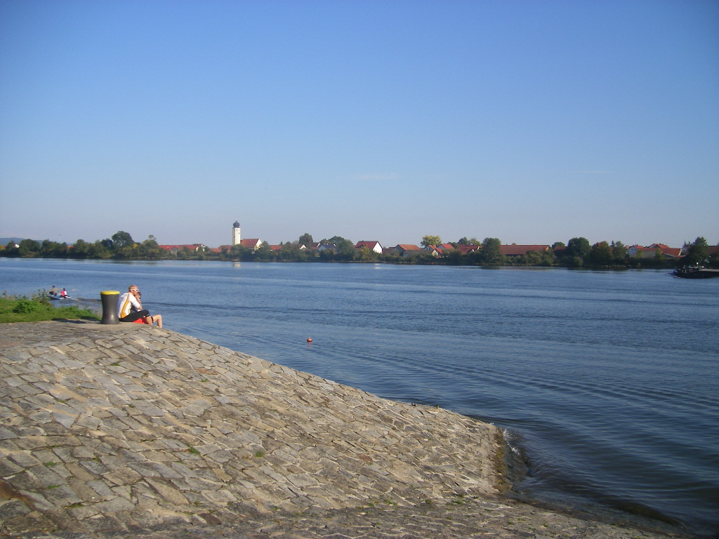 Danube at Demling (Friesheim on the another site) - Bach a.d.Donau municipality